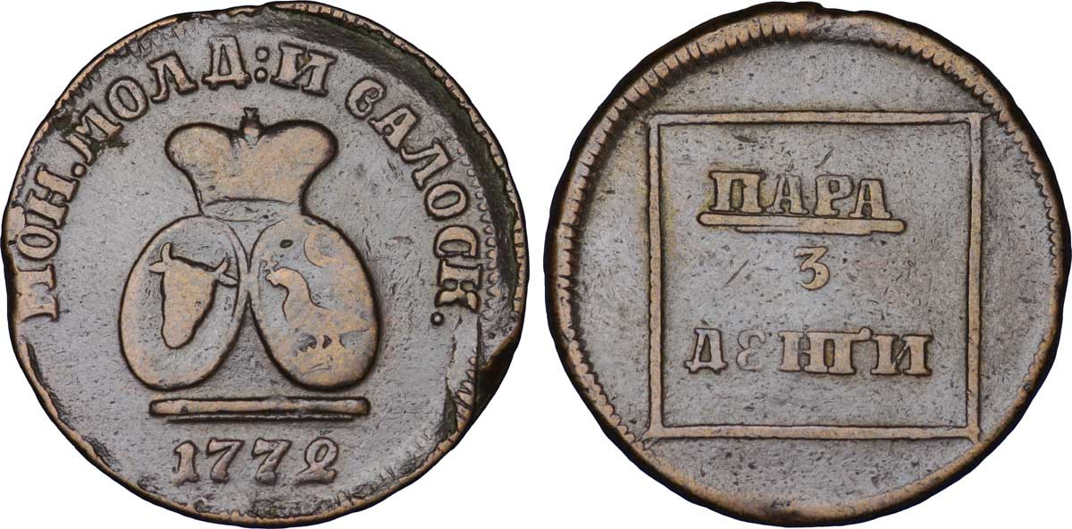 1 Para 3 Dengi de la Principauté de Moldavie - Valachie, 1772